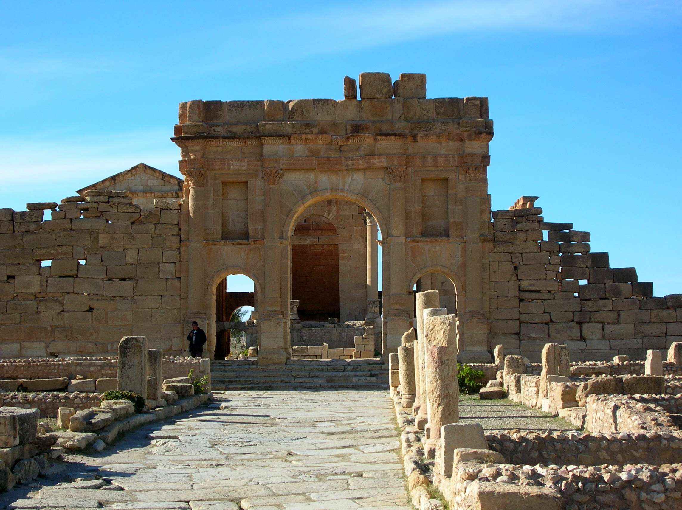 Arch of Antoninus Pius, Sbeitla, Tunisia